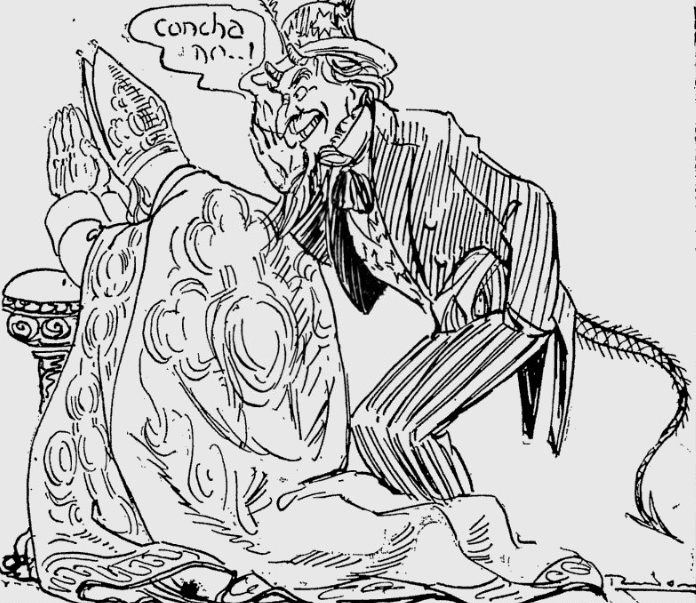 Uncle Sam by Ricardo Rendón